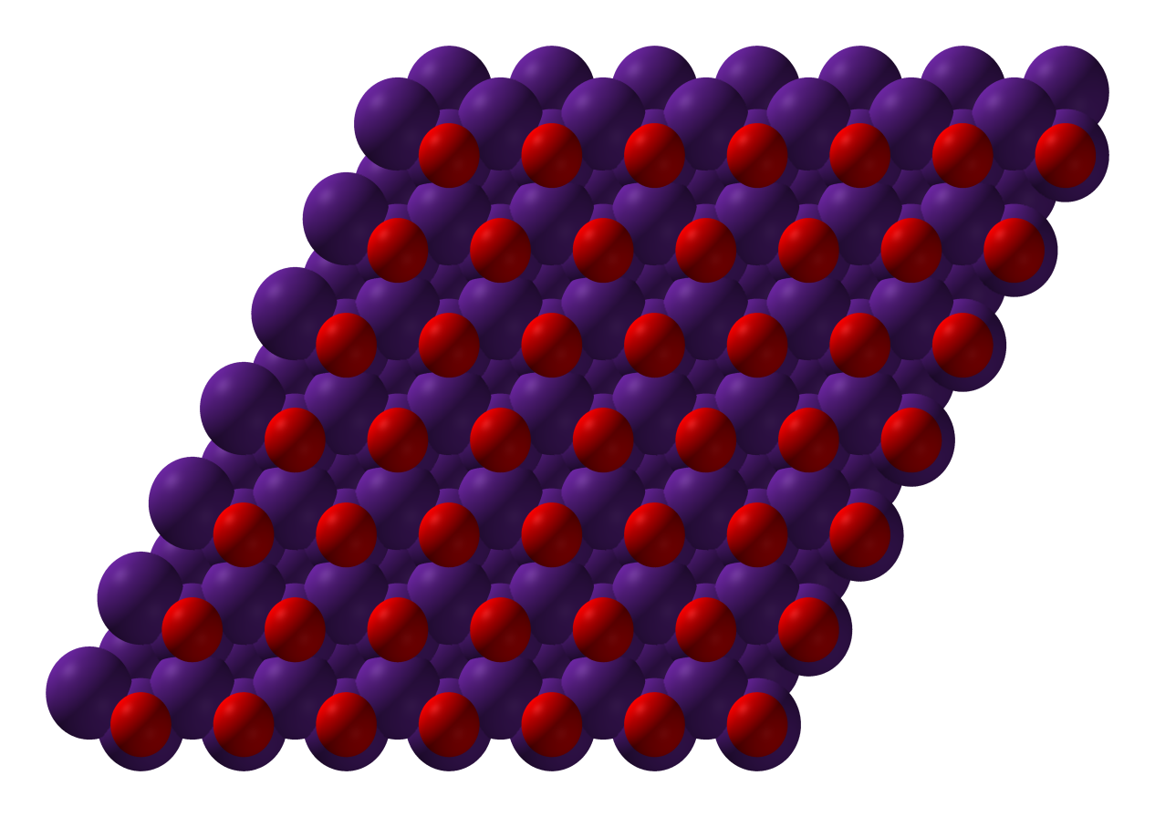 Space-filling model of part of the crystal structure of caesium oxide, Cs2O. Structural data from Wyckoff R. W. G. Crystal Structures 1963, 1, 239-444.